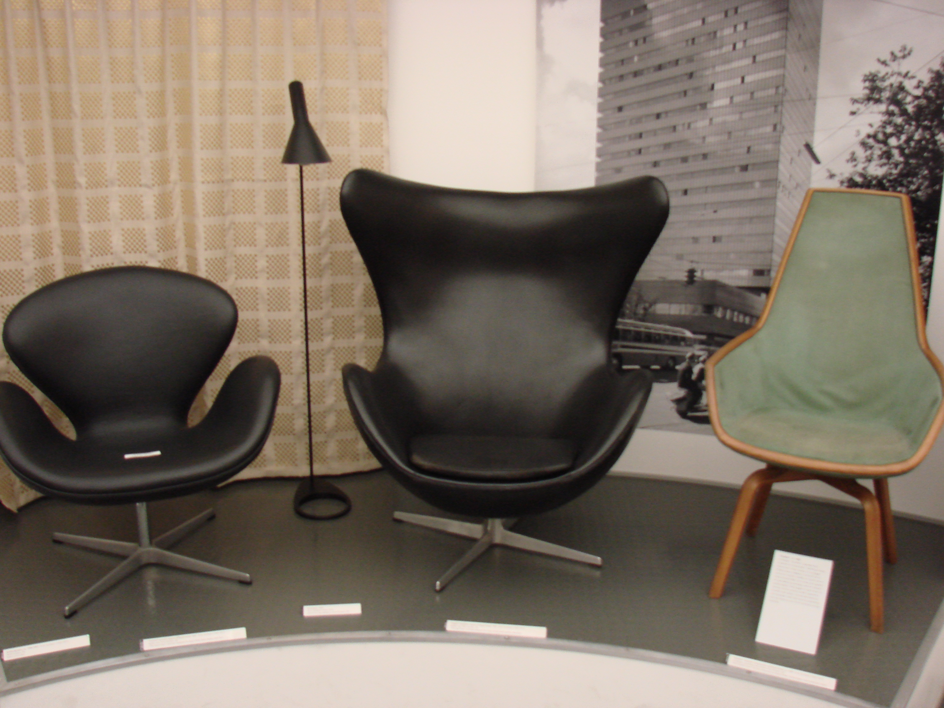 Egg Chair, Swan Chair and further inventory of the SAS Royal Hotel designed by Arne Jacobsen.